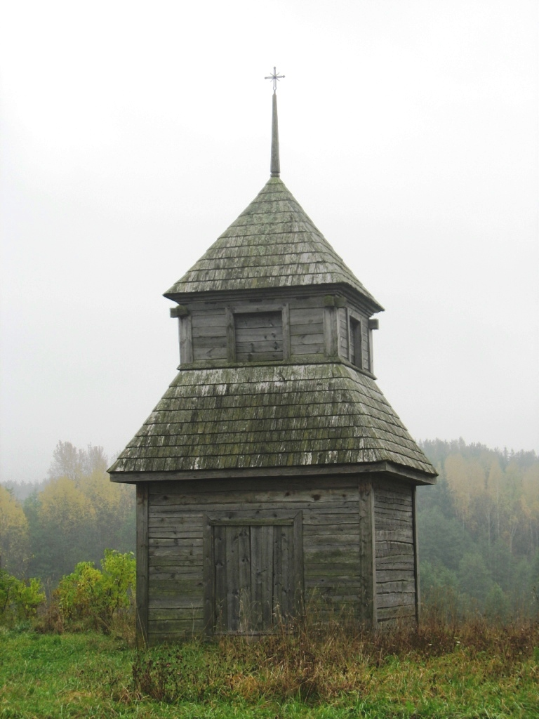 Traditional Bell_tower of Belarus, Stroczycy